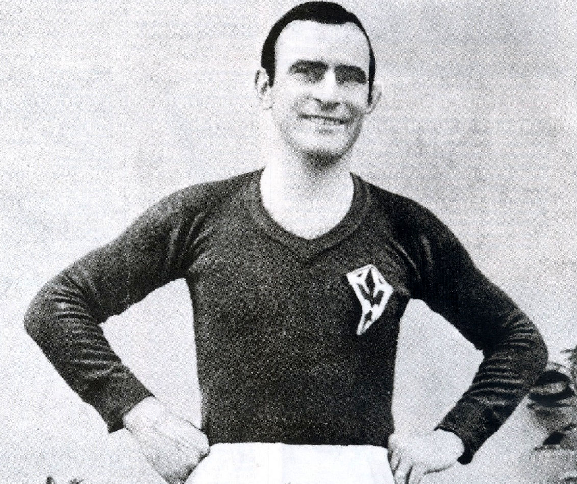 Uruguayan footballer Pedro Petrone Schiavone with A.C. Fiorentina in the early 1930s.